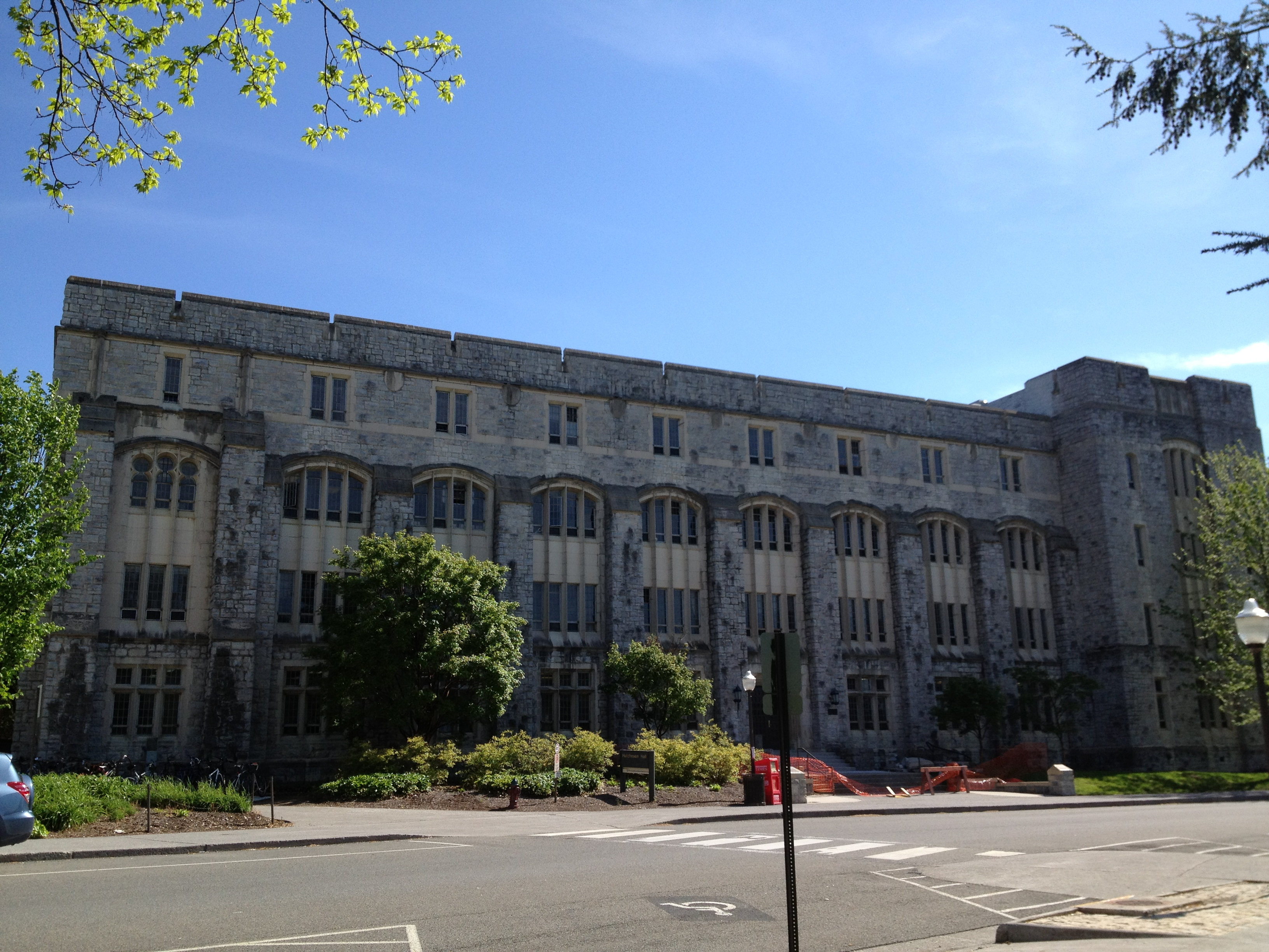 Hutcheson Hall, Virginia Tech, Blacksburg, Virginia